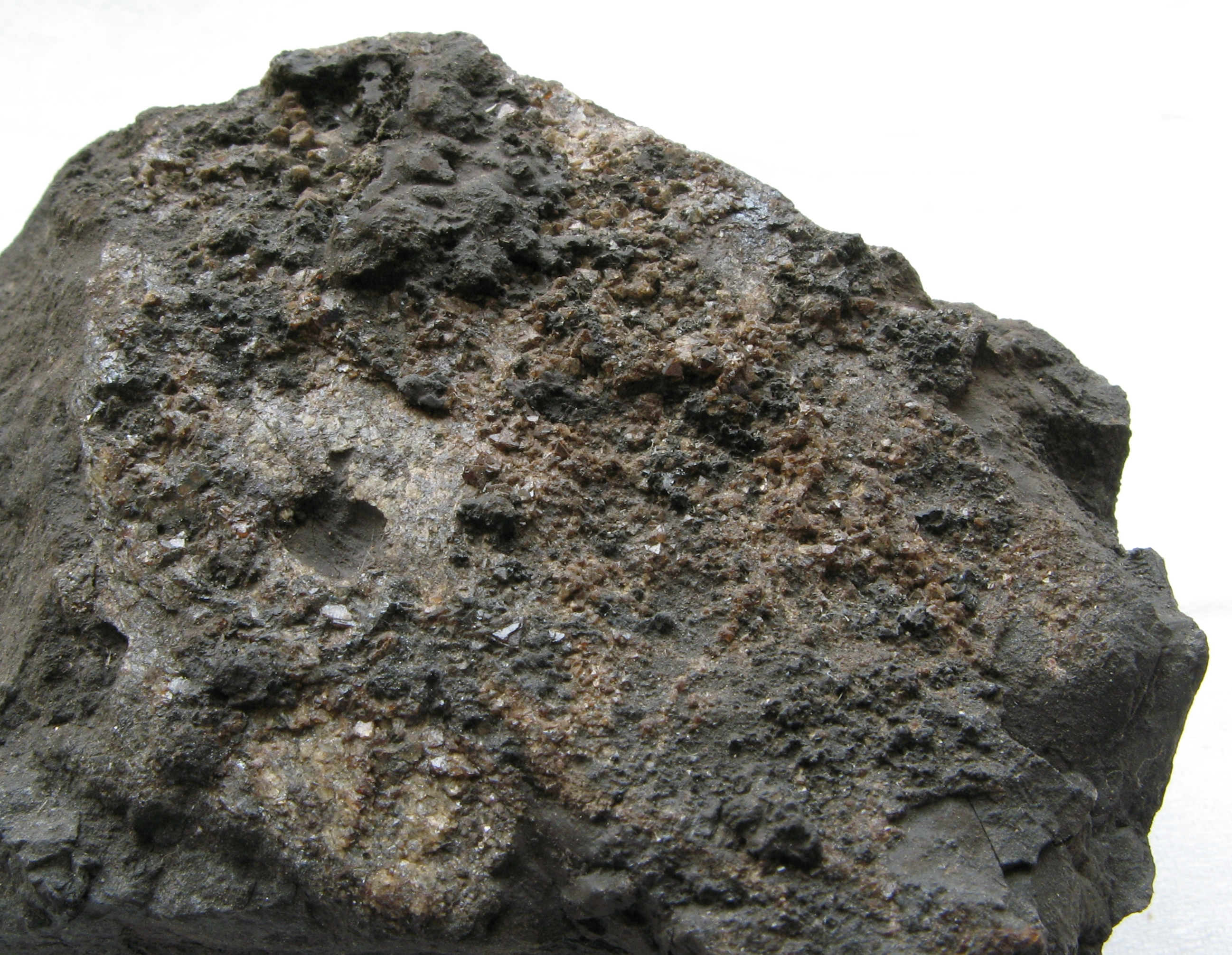 Atopite, manganese-rich variety of Roméite Locality: Miguel Prournier, Ouro Preto, Brazil Exposed in the Mineralogical Museum of University Bonn, Germany